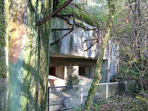 Block 2 at the lesser work of Otterbiel